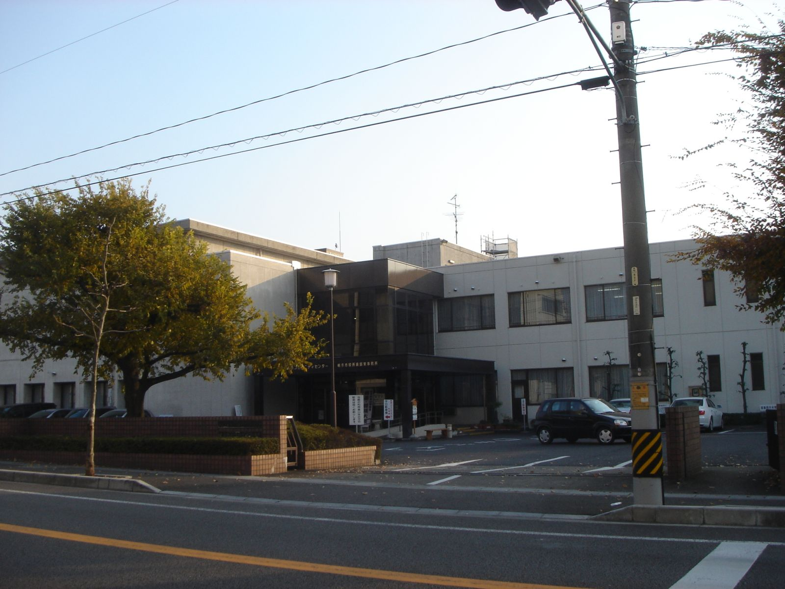 Gifu City Nanbu Community Center（岐阜市南部コミュニティセンター）,Gifu,Gifu,Japan(岐阜県岐阜市加納城南通)で撮影。